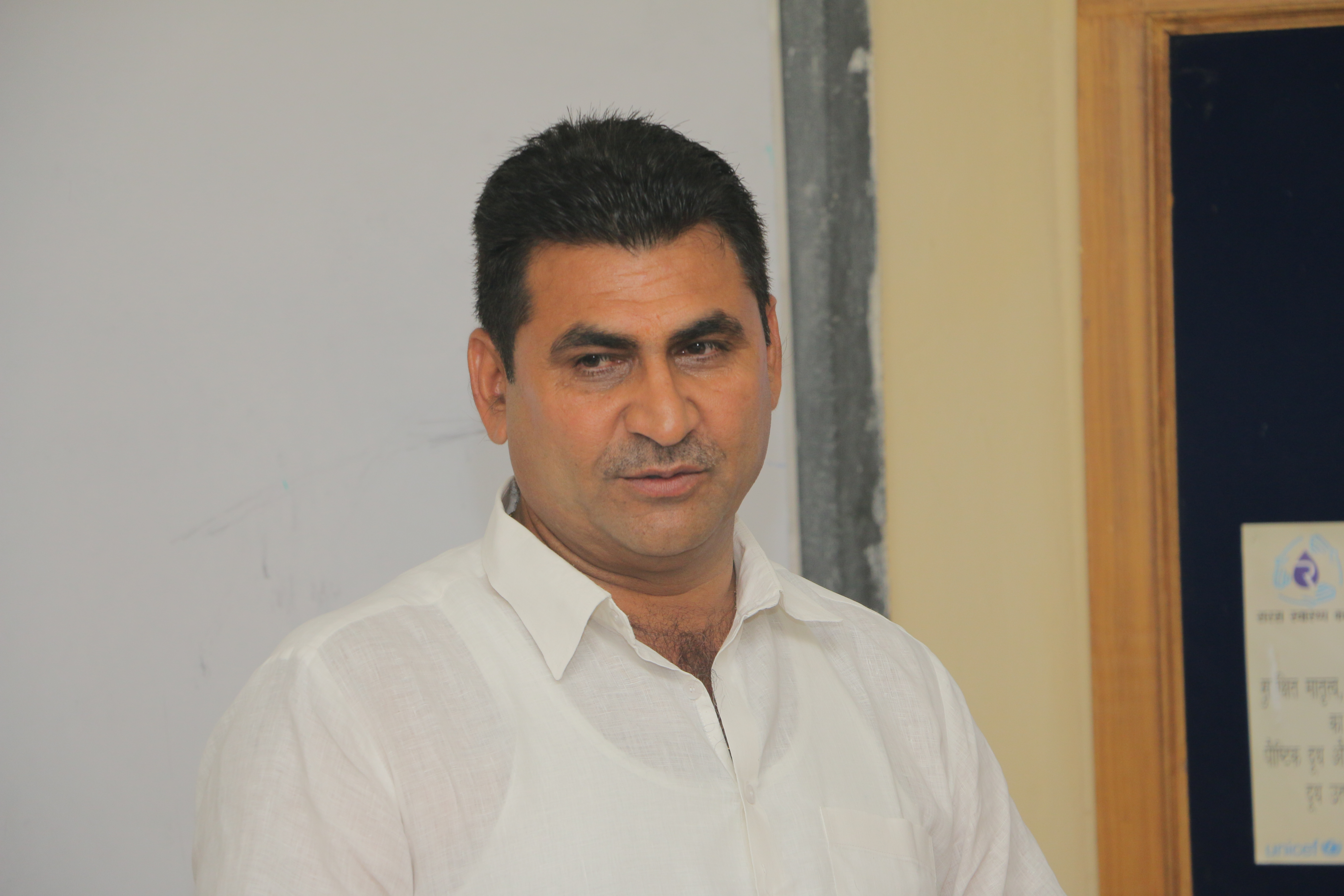 Ramlal jat farmer's leader in Rajasthan addressing meeting of farmer's in Saras dairy bhilwara